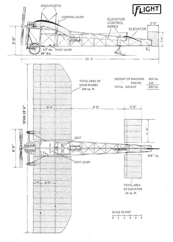 Side and plan views of the Macfie Monoplane